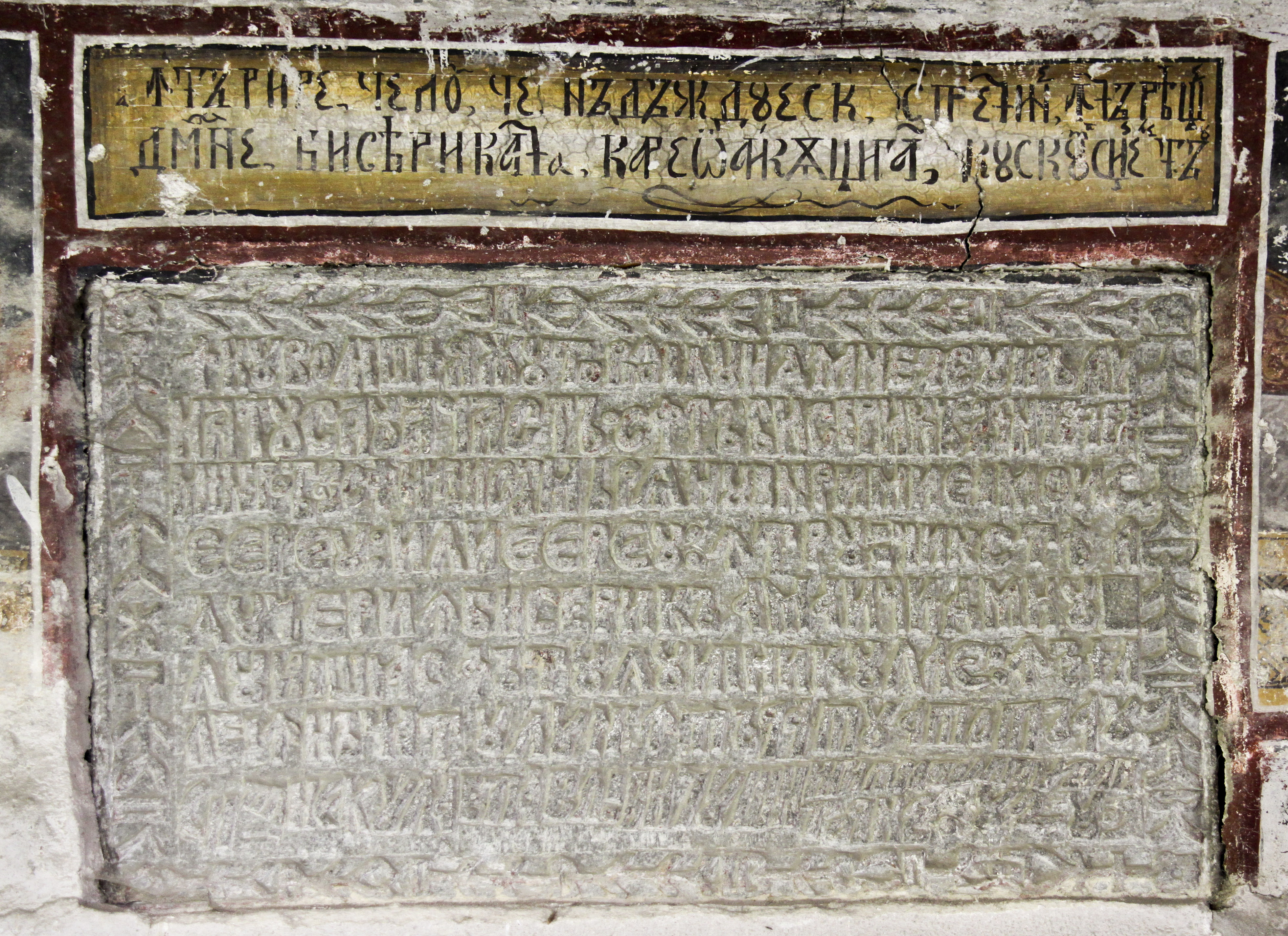 Domneşti, Argeş county, Romania: the old church, West side, inscription above the entrance.